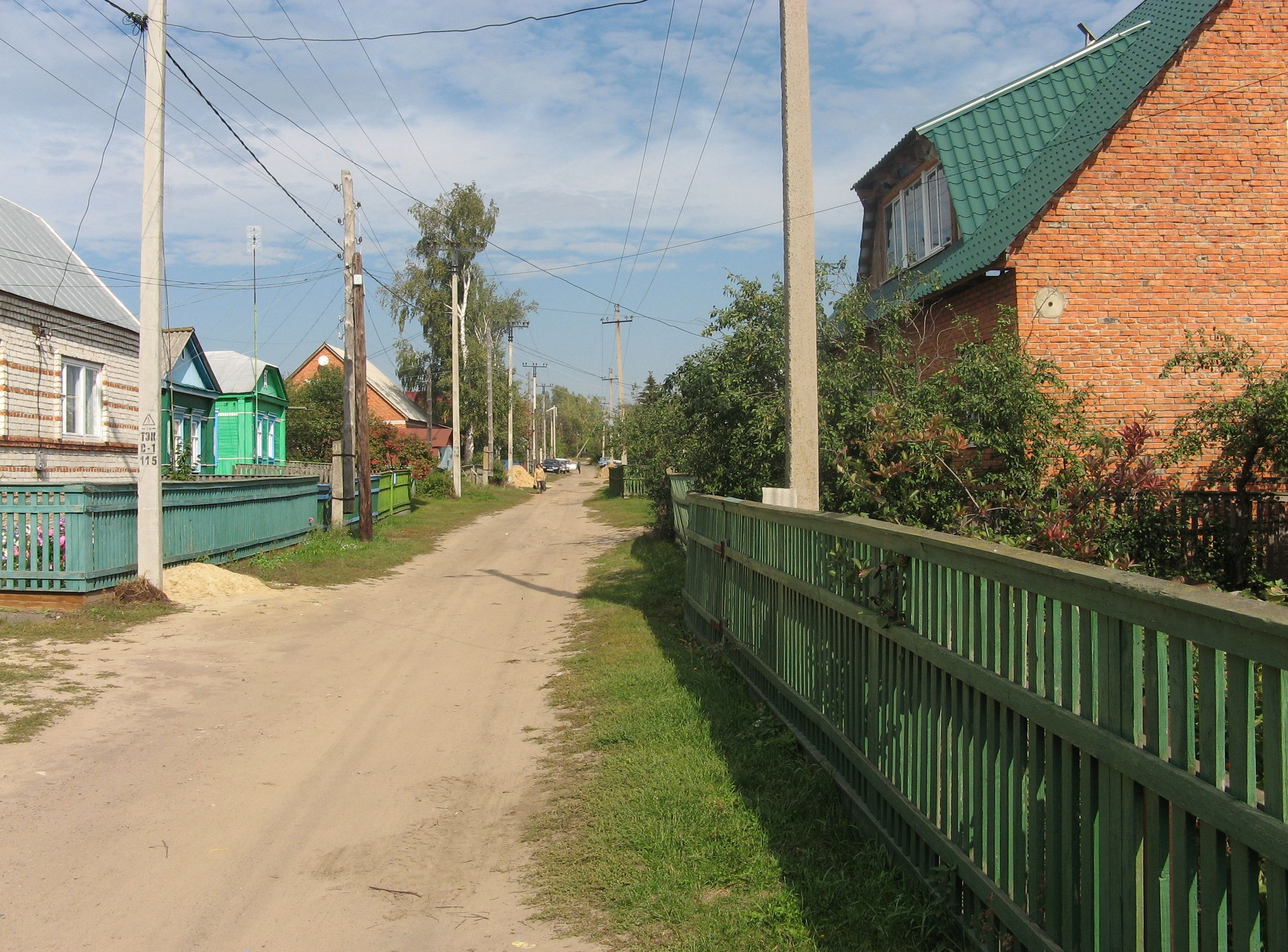 Street in Sosnovka. Tambov Oblast Russia